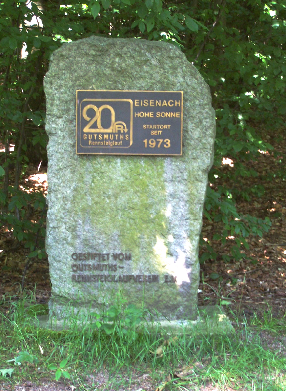 A Memorial place at the Hohe Sonne near Eisenach.